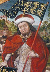 Henry I, Margrave of Austria